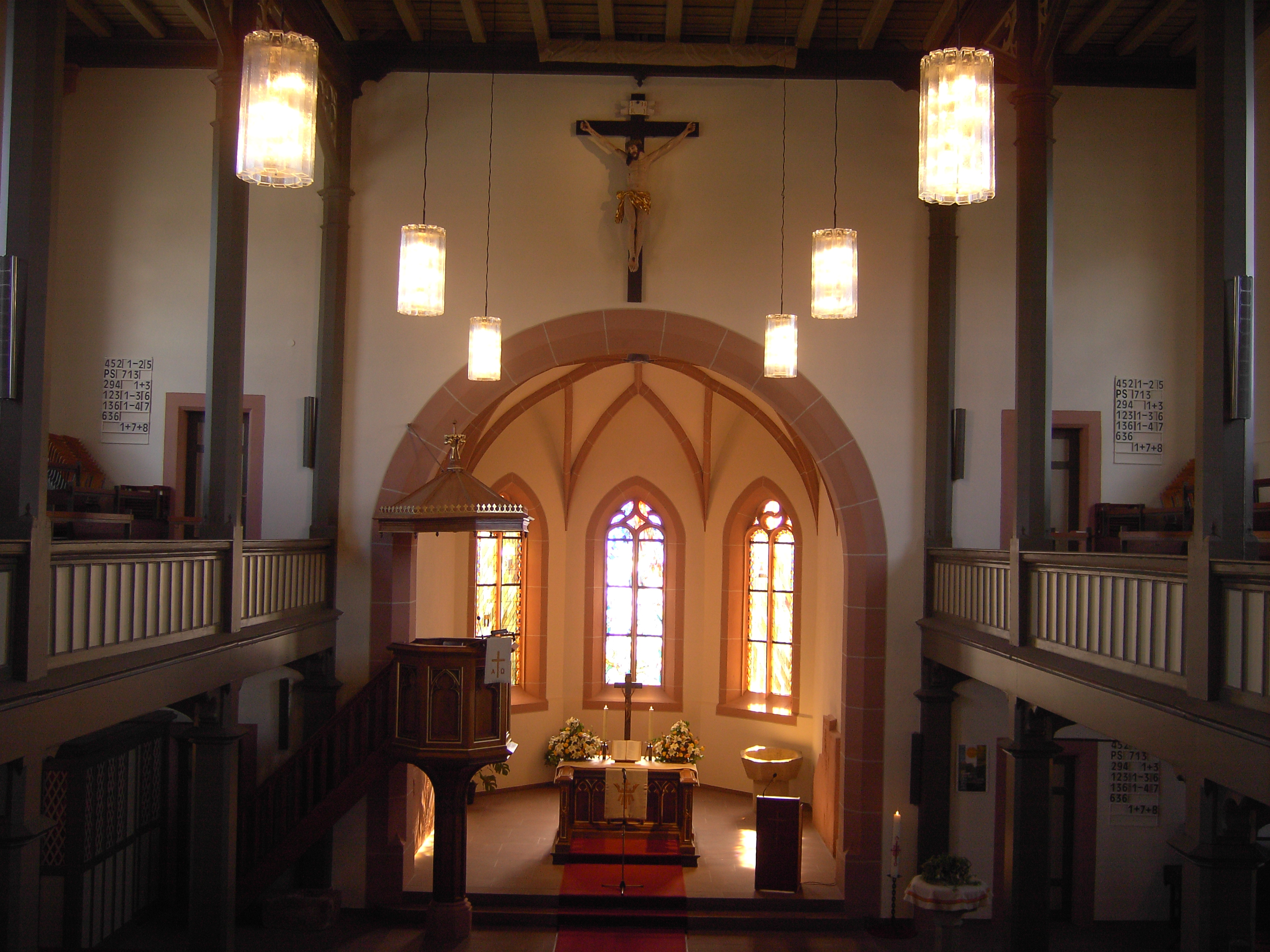 Inside Protestant Michaelis-Church